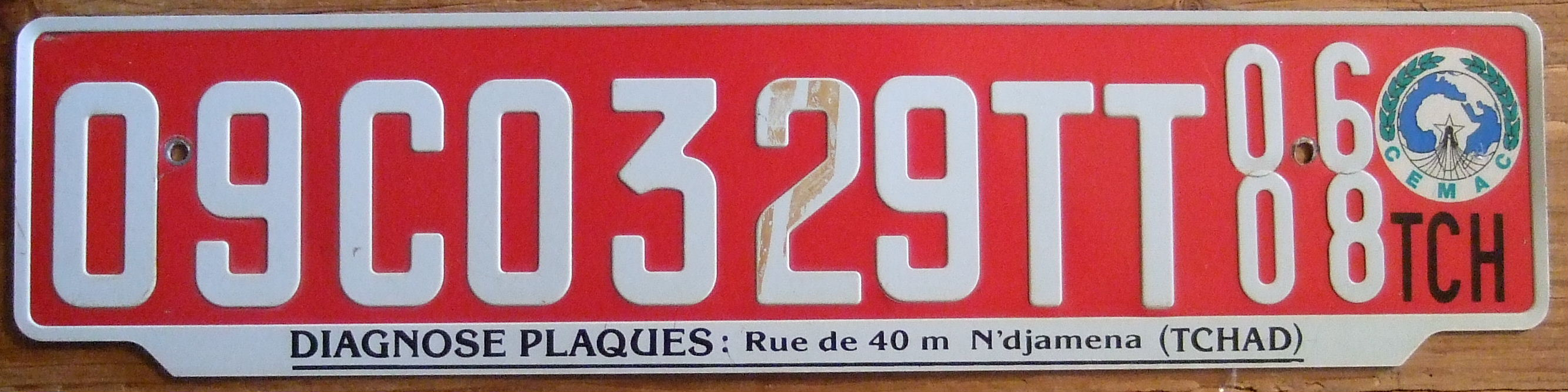 Not sure of the significance of the white lettering of this temporary tourist license plate. My Africa license plates set also has a black numbered temporary tourist plate. Both are on a reflective red background. Does anyone know the difference...